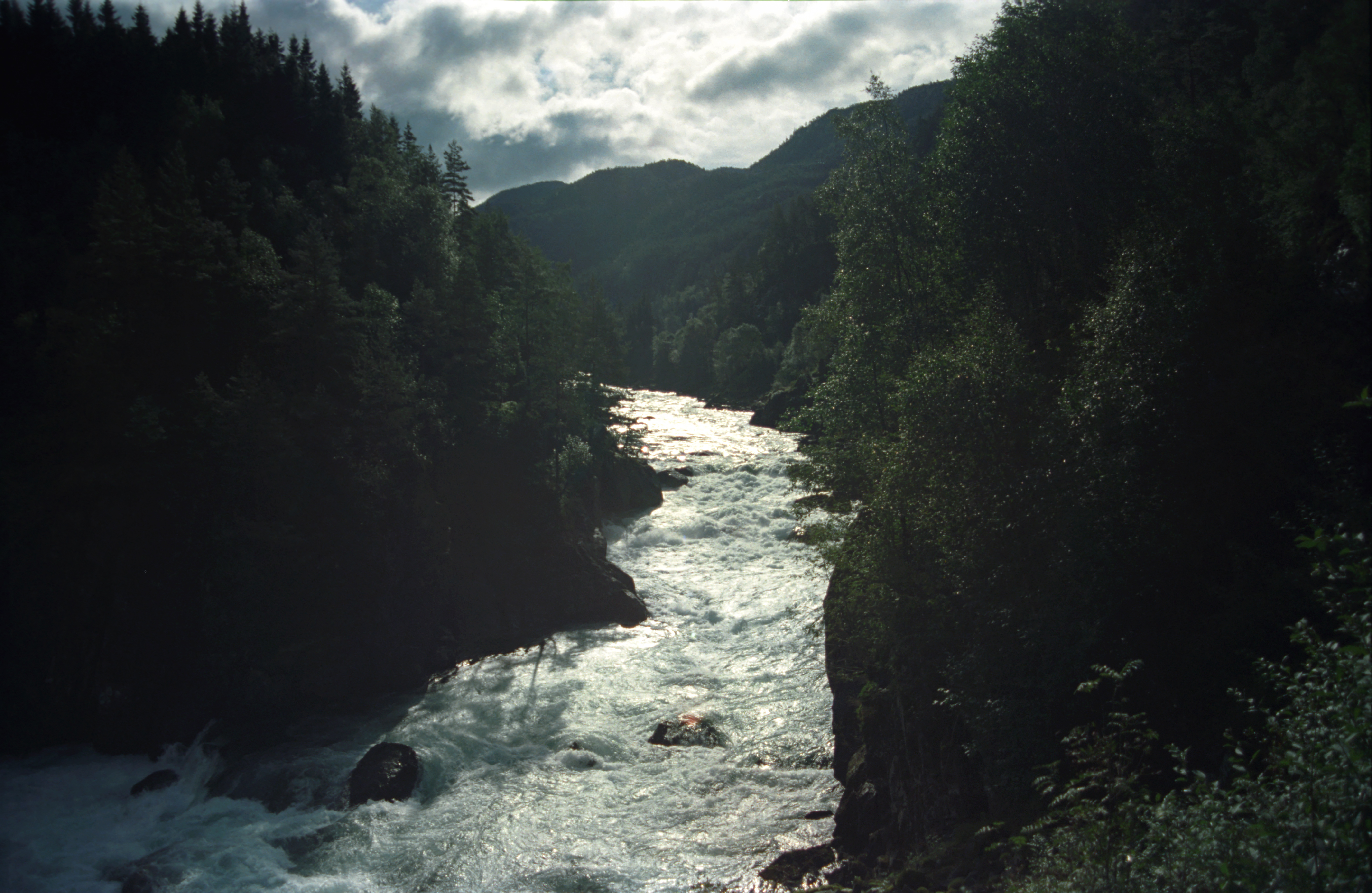 Suldalslågen